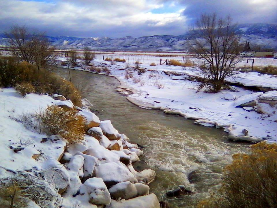 A muddy river flows from the upper left hand corner of the photo to the lower right. Snow covers the land and rocks on either side of the river. Five scraggly trees dot the landscape, along with a few clumps of brush. In the distance, snow covered mountain reach up to meet low hanging clouds, that cover nearly all the sky.